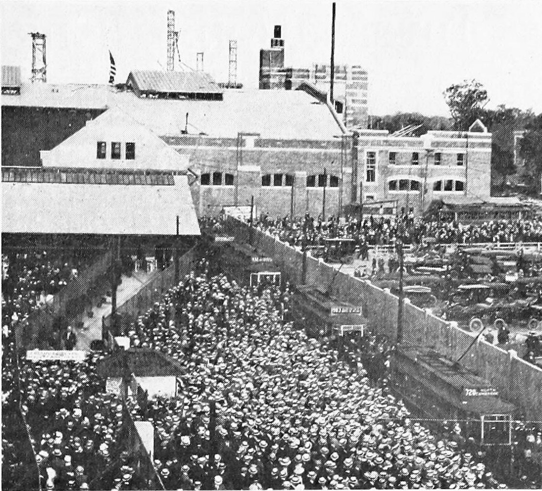 Crowds at Braves Field Loop on the openig day of Braves Field in August 1915